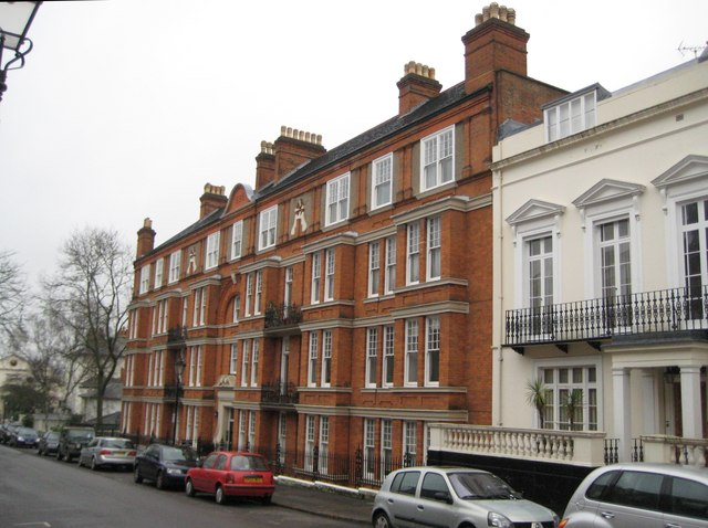 Hampstead: Hampstead Hill Mansions, Downshire Hill, NW3 The date in the pediment of the building is 1896.